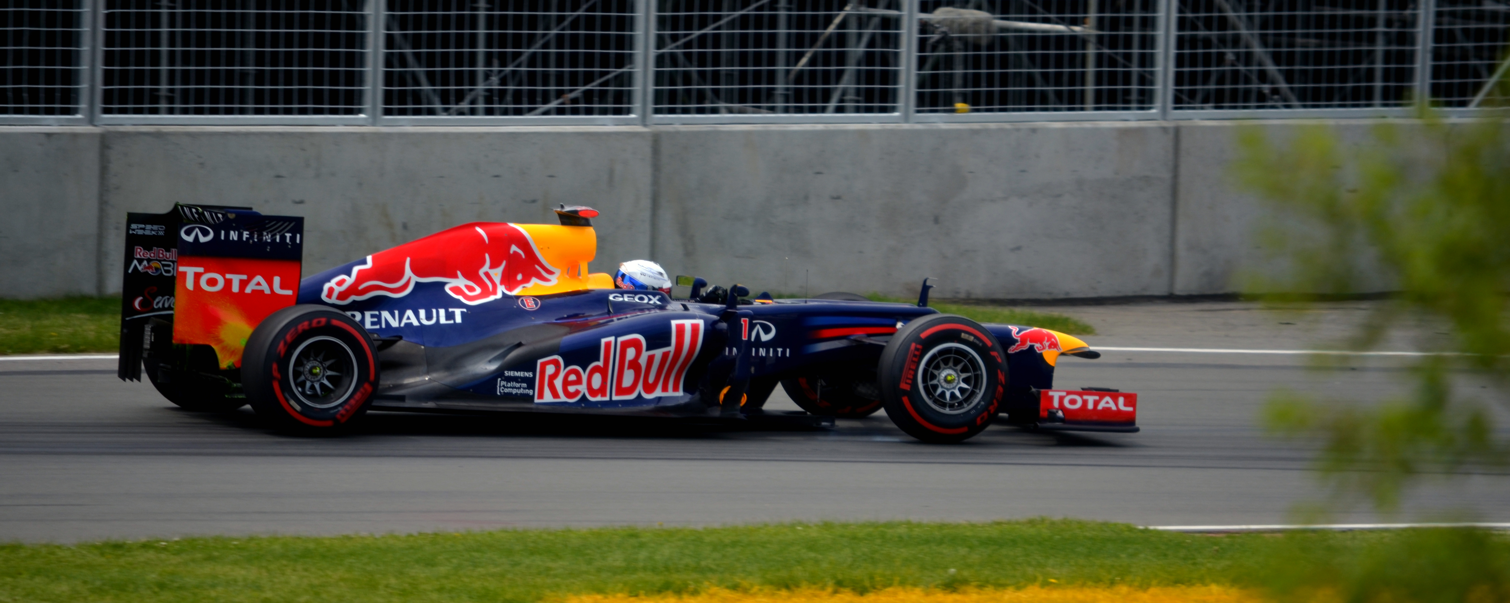 Sebastian Vettel in the Red Bull - Renault RB8 at L'Epingle hairpin corner of Circuit Gilles Villeneuve during second practice for the 2012 Canadian Grand Prix.